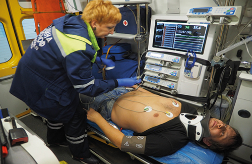 Angel VCMK MGU